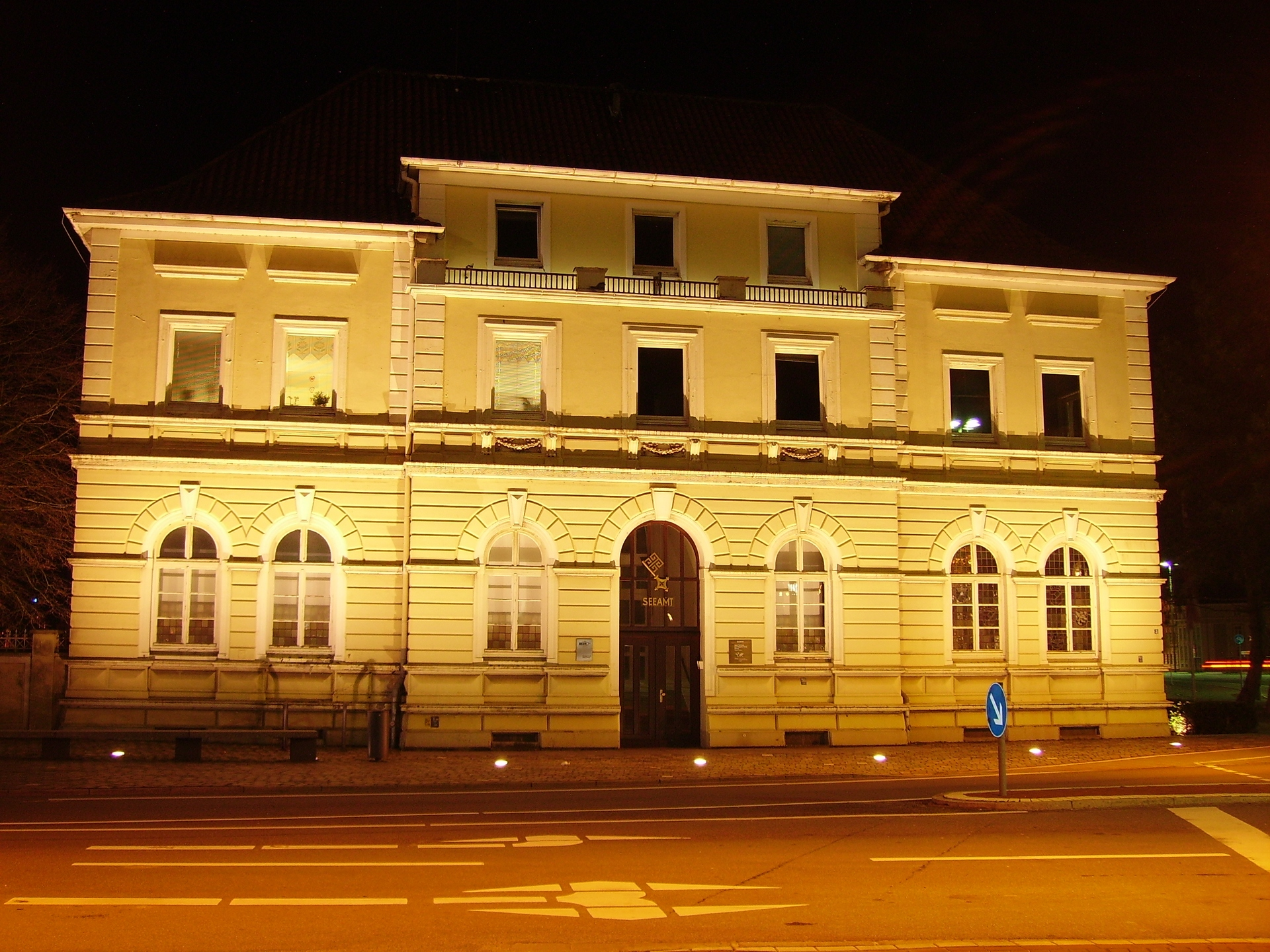 The former office of the Maritime Board of Inquiry in Bremerhaven, Germany, at night